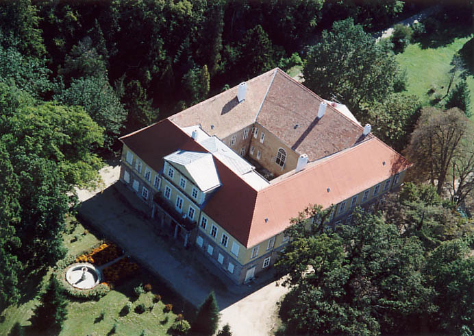 Dénesfa Cziráky palace This is a photo of a monument in Hungary. Identifier: 4022